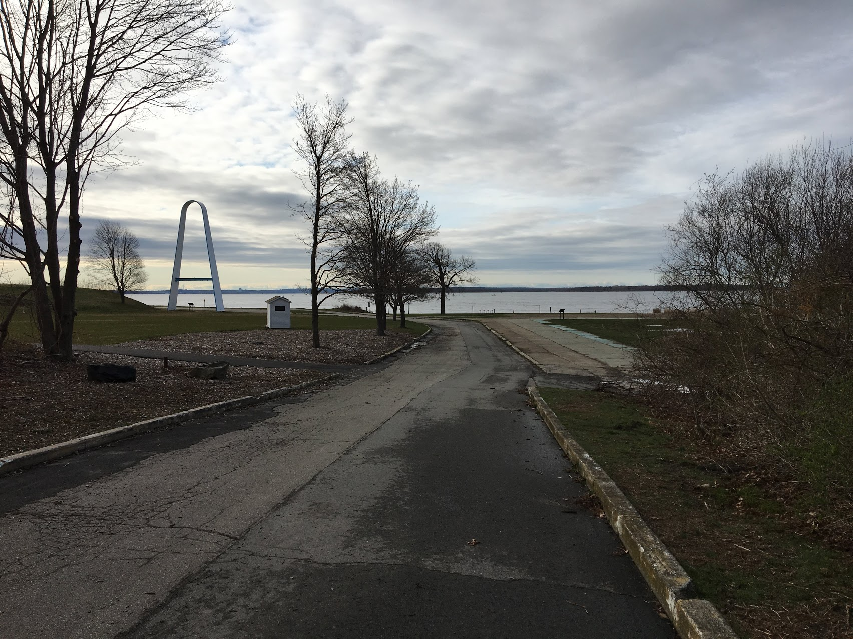 Rocky Point State Park, 2018